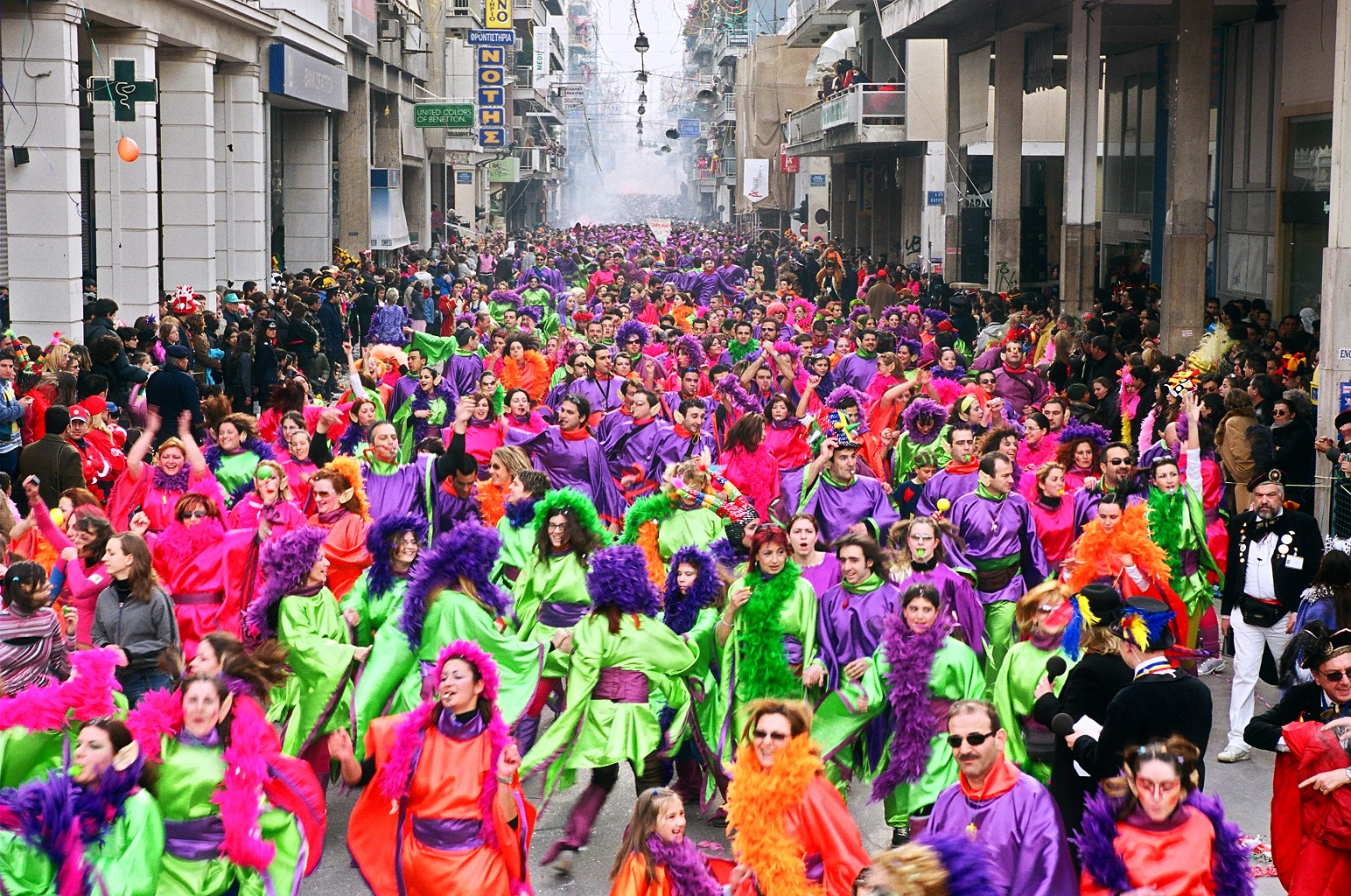 Drini 19:43, 10 December 2006 (UTC)